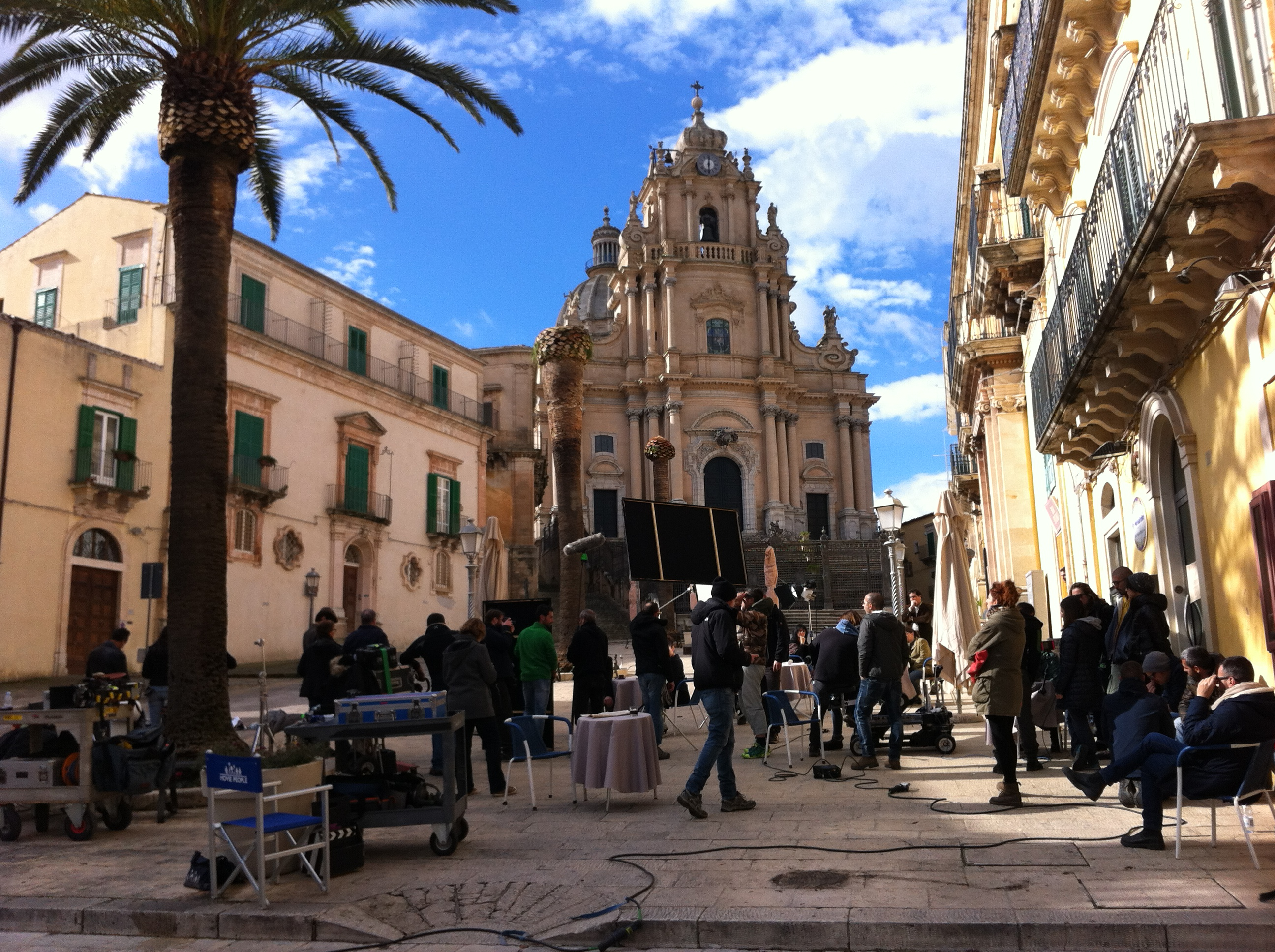 Movie set of "The Young Montalbano" in Ragusa Ibla.